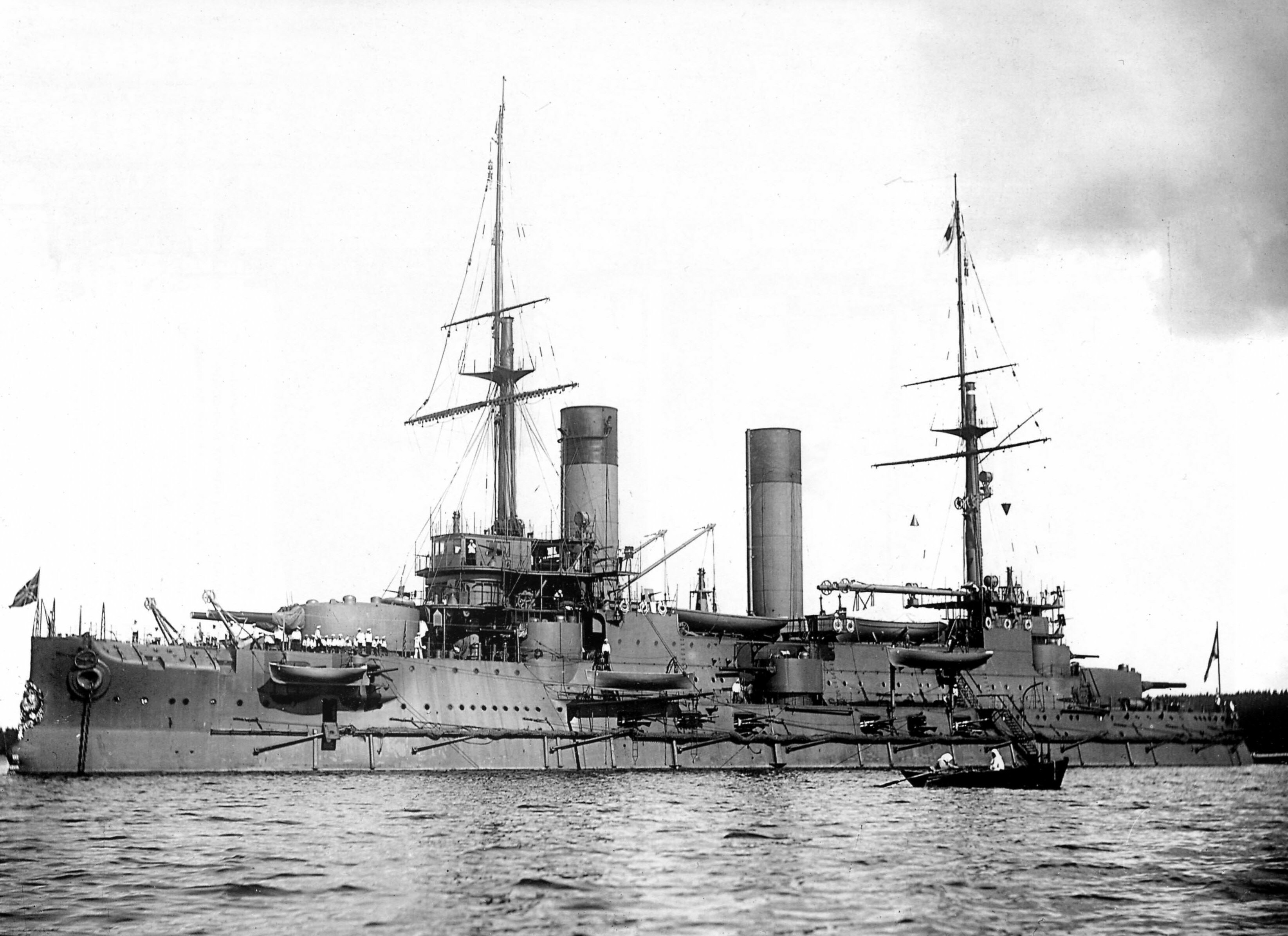 Imperial Russian battleship Slava, 1905.